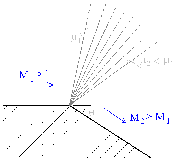 As a supersonic flow turns round a corner, it goes through an expansion process. Across the expansion fan the Mach number increases.